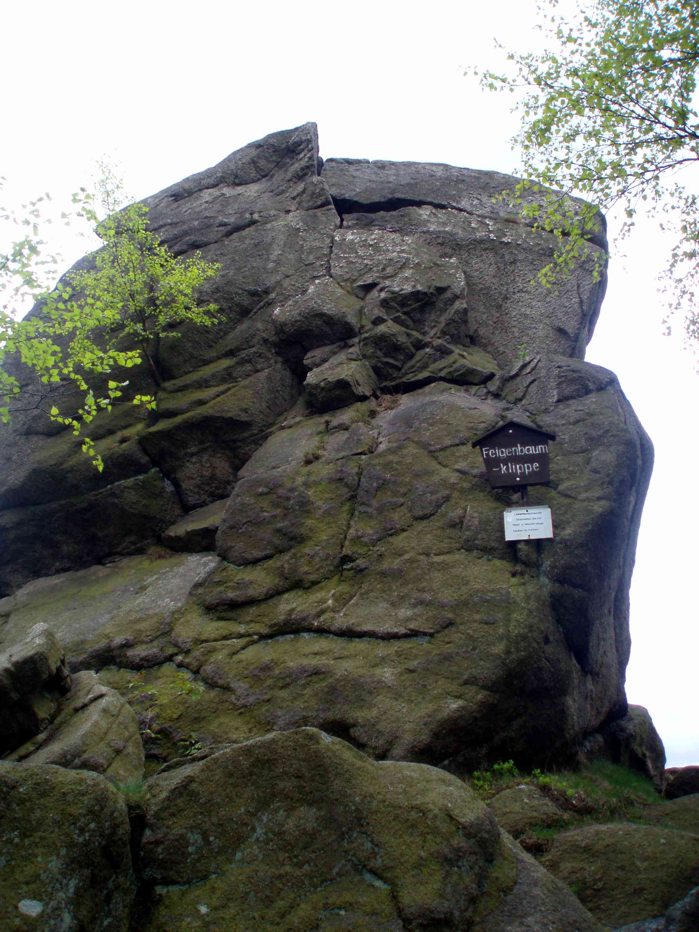 The Feigenbaumklippe crag in the Harz mountains of central Germany